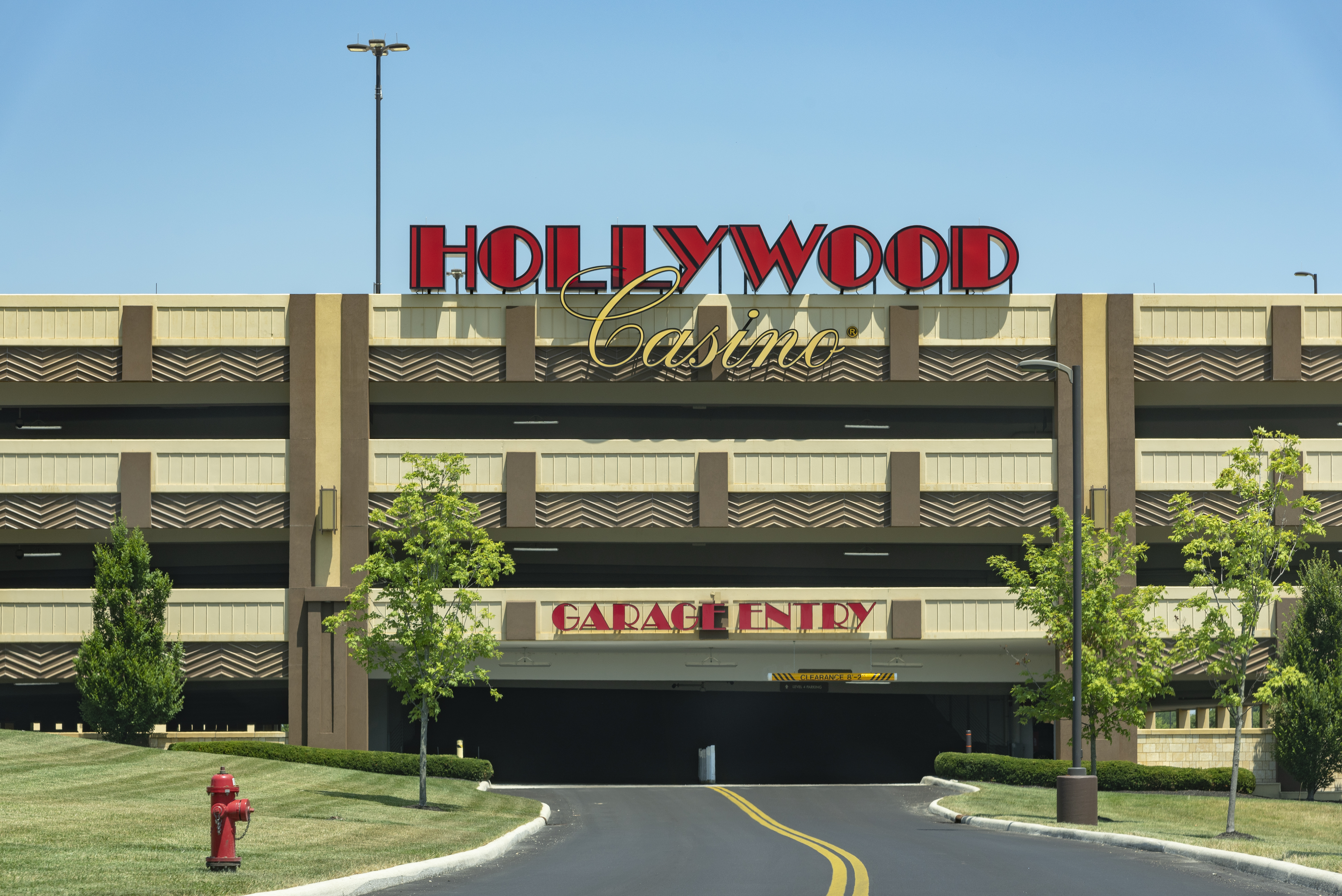 Entrance to the Hollywood Casino Columbus parking garage.